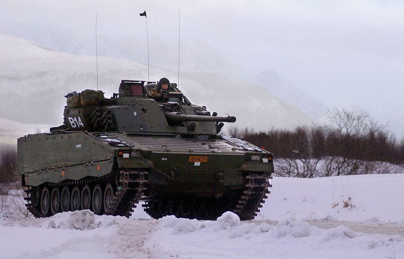 Norwegian Army CV9030N infantry fighting vehicle (Norwegian version of Hägglunds Combat Vehicle 90) moving through the snow.